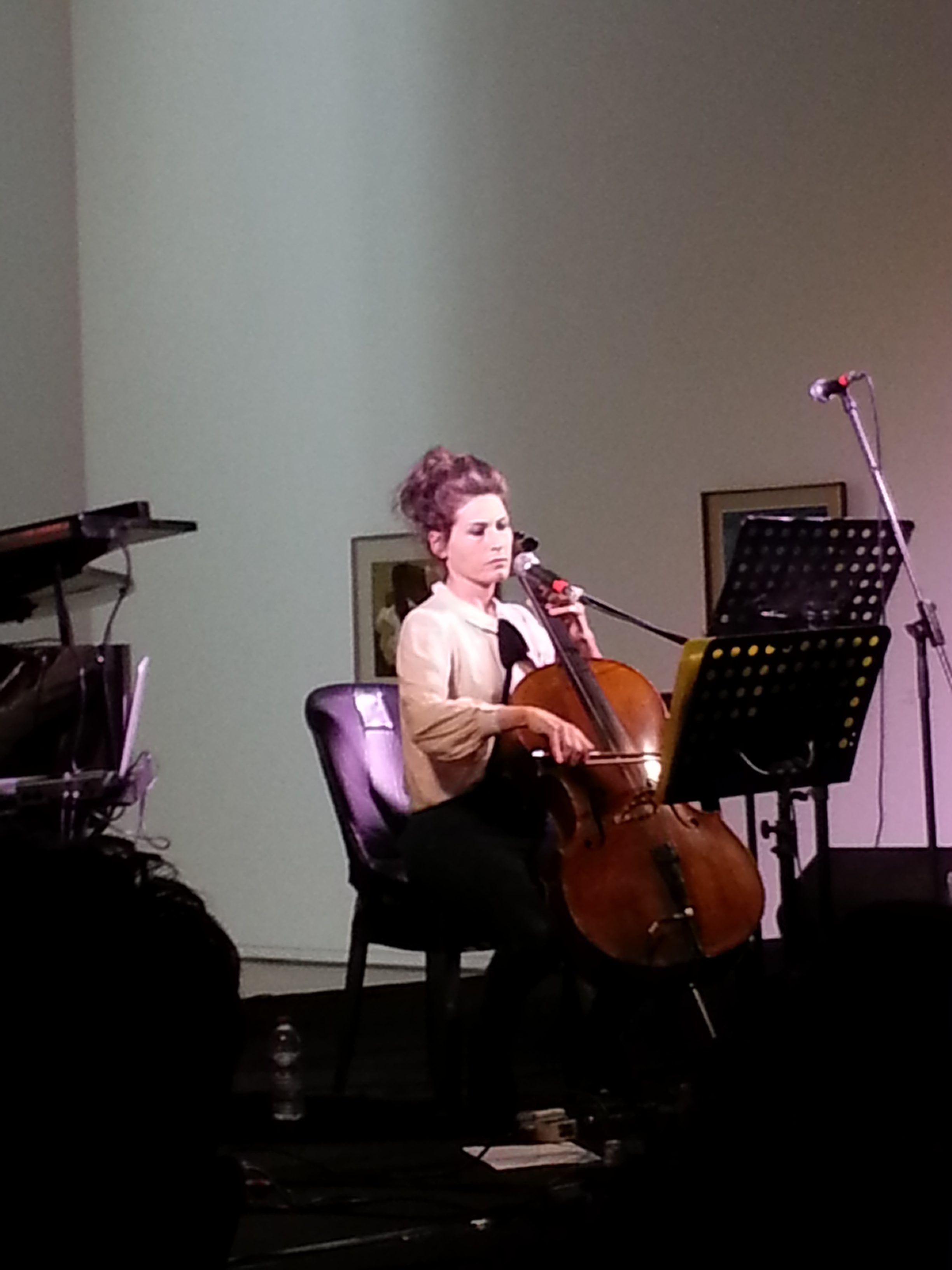 Karni Postel performing at the Piano Festival with Roy Yarkoni. Picture taken at Tel Aviv Art Museum, Israel